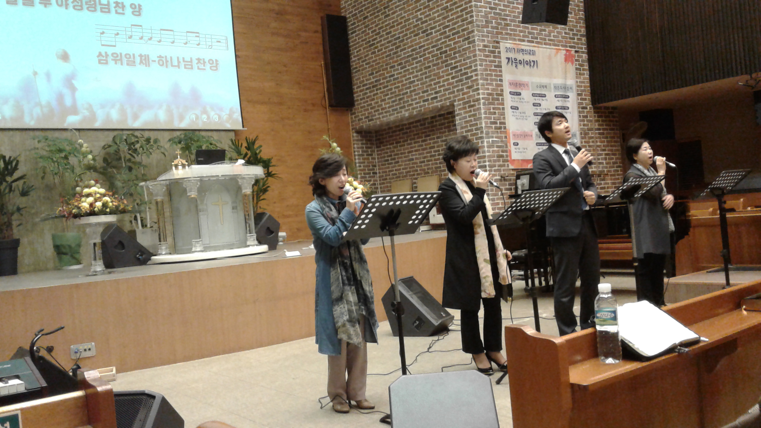 Praise the Lord